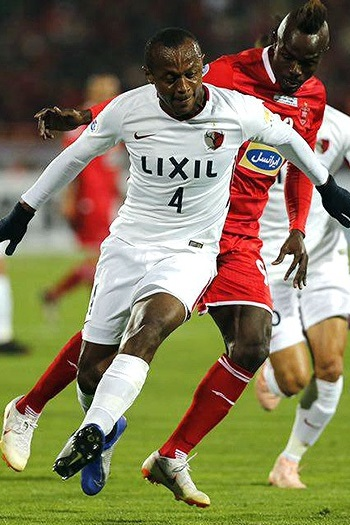 Léo Silva